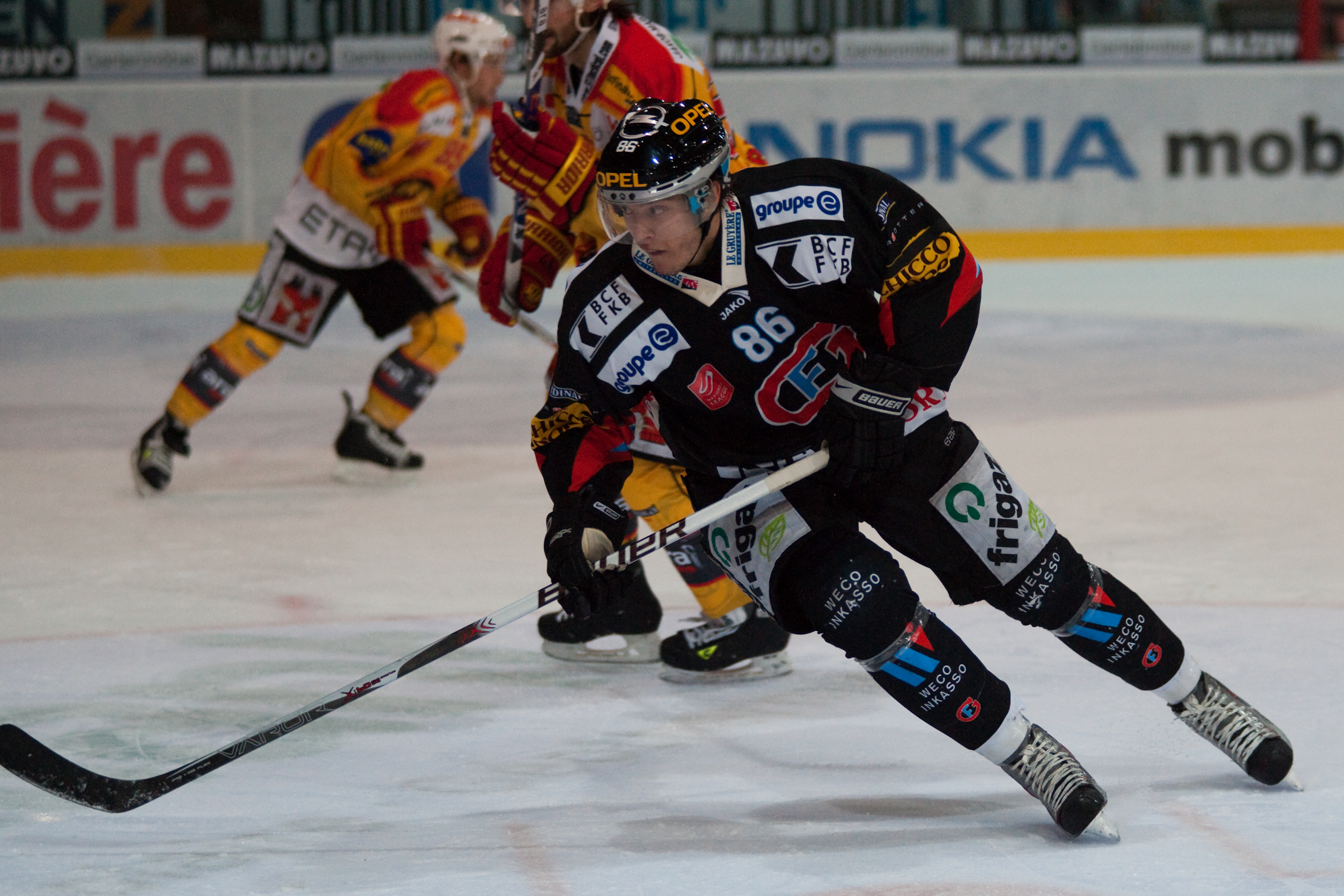 Julien Sprunger, Fribourg-Gottéron vs. Langnau Tigers, 15th January 2010.